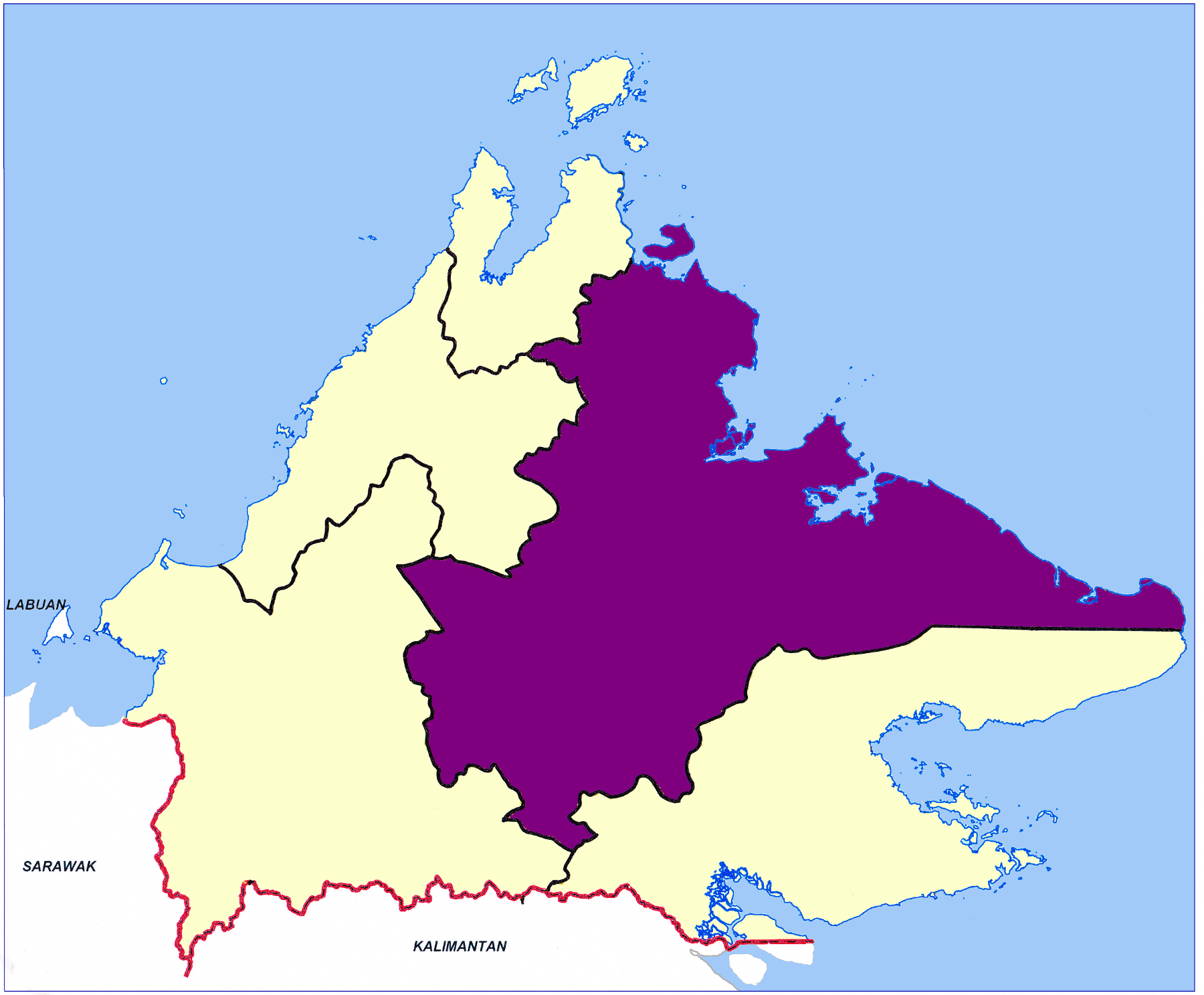 Sabah: Area covered by the Sandakan Division